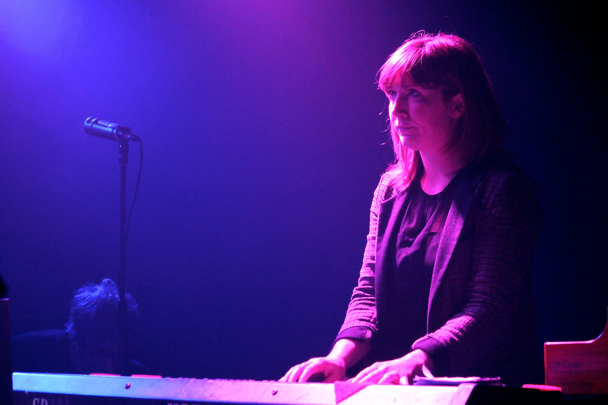 Musician Sara Lowes performing with the band Bone-Box at Manchester Sound Control on 20th January 2014. Image © Emma Farrer 2014 and used with her permission.